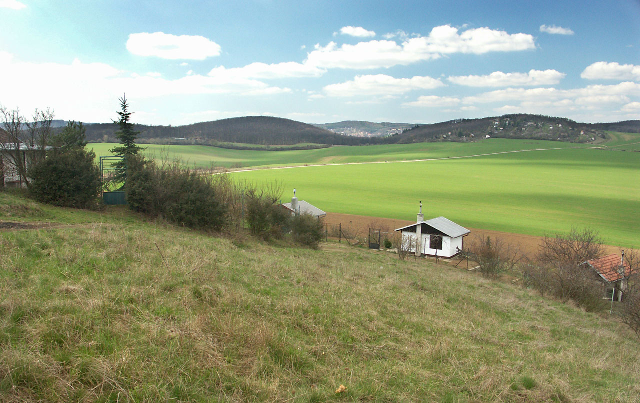 Picture from Netopýrky hill in Brno-Komín, Czech Republic. In area is visible ZOO Brno, recreating area and small part of forests nature conservation parc Baba (right corner of picture) Česky: Pohled z NP Netopýrky. Na fotografii lze spatřit kopec se ZOO Brno (zadní část kopce Mniší hora), zahrádkářskou kolonii a malý kousíček lesa přírodního parku Baba (zcela vpravo)